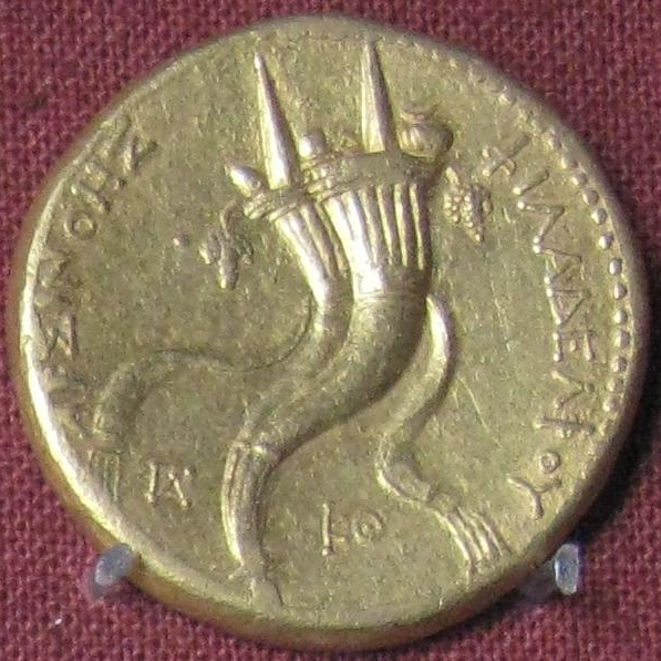 Reverse of coin of Arsinoe_II: double_cornucopia_gold